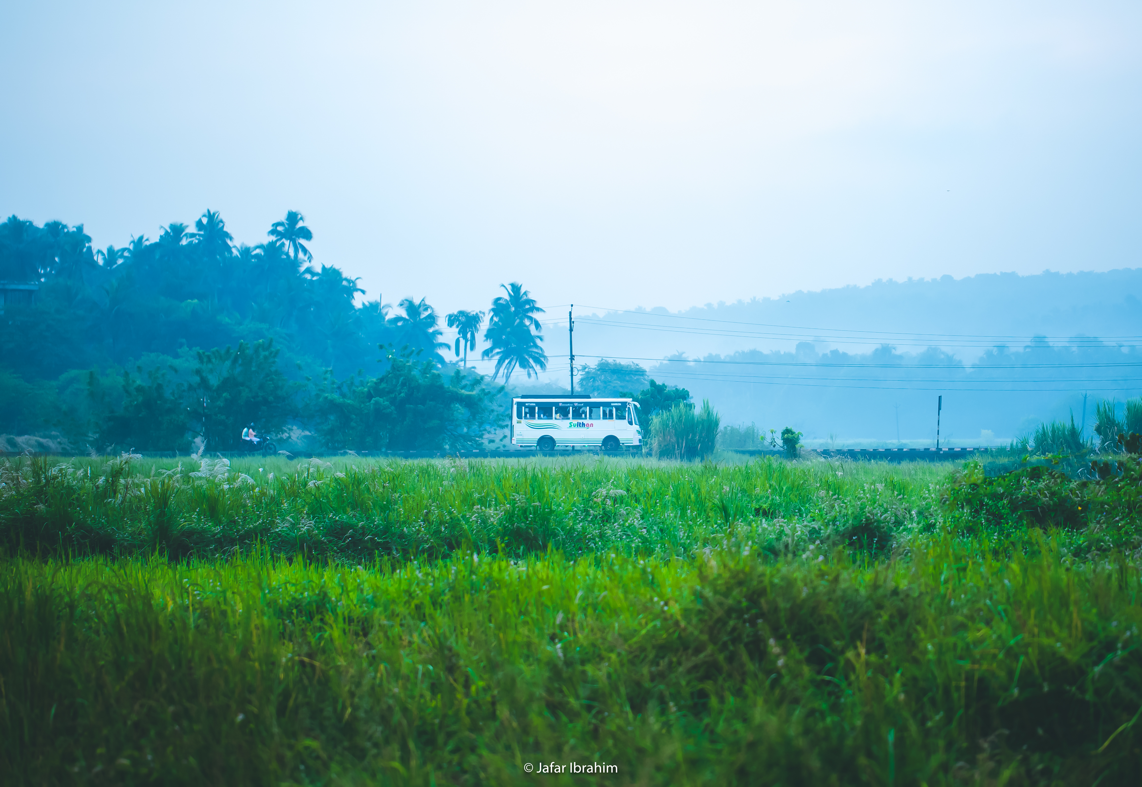 Taken by JAFAR IBRAHIM